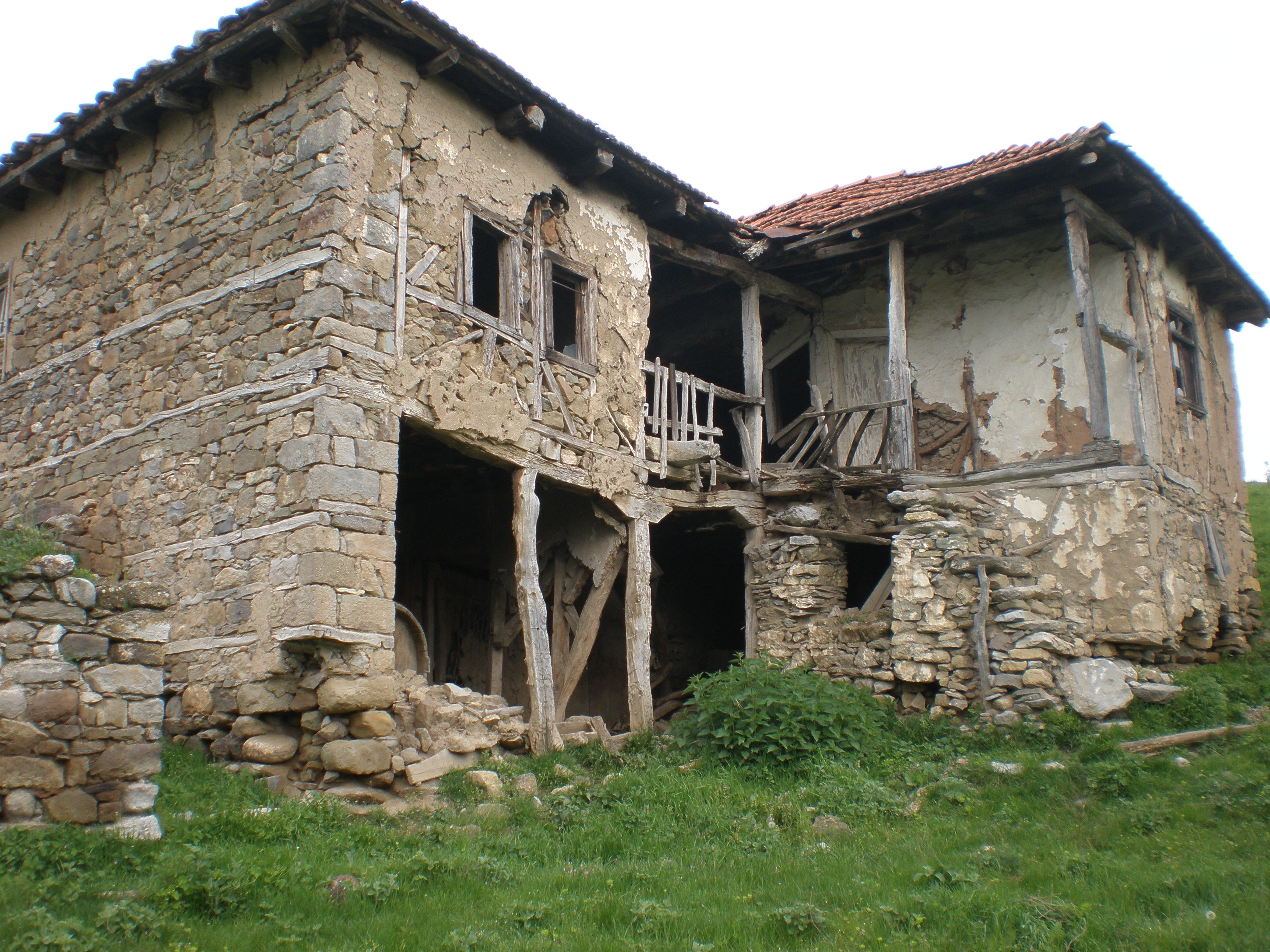 Old house in village of Dzidimirci, Macedonia